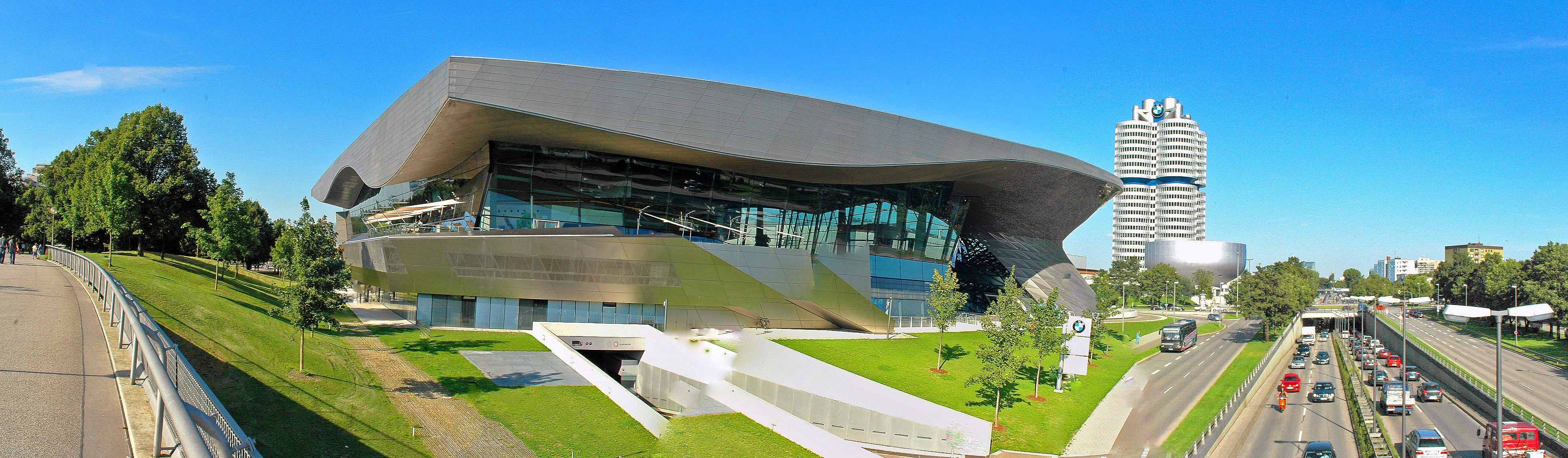 BMW World in Munich with BMW Headquarter Tower